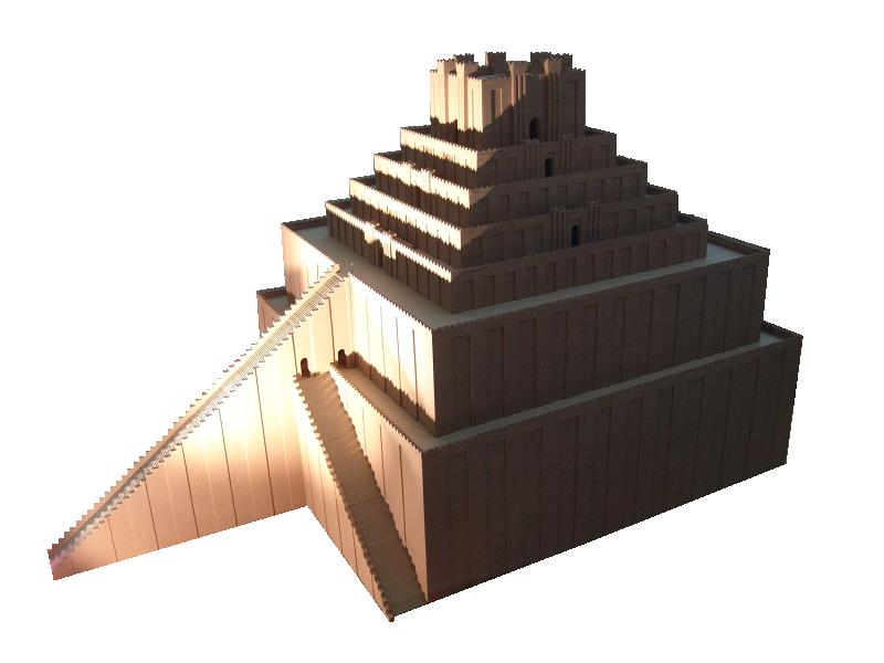 Model of Etemenanki. Pergamonmuseum (Berlin)